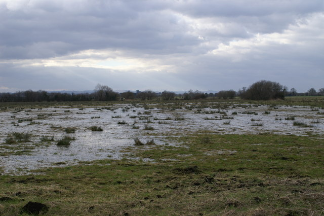 Wet Levels: Flooded plains on King's Sedge Moor, Somerset